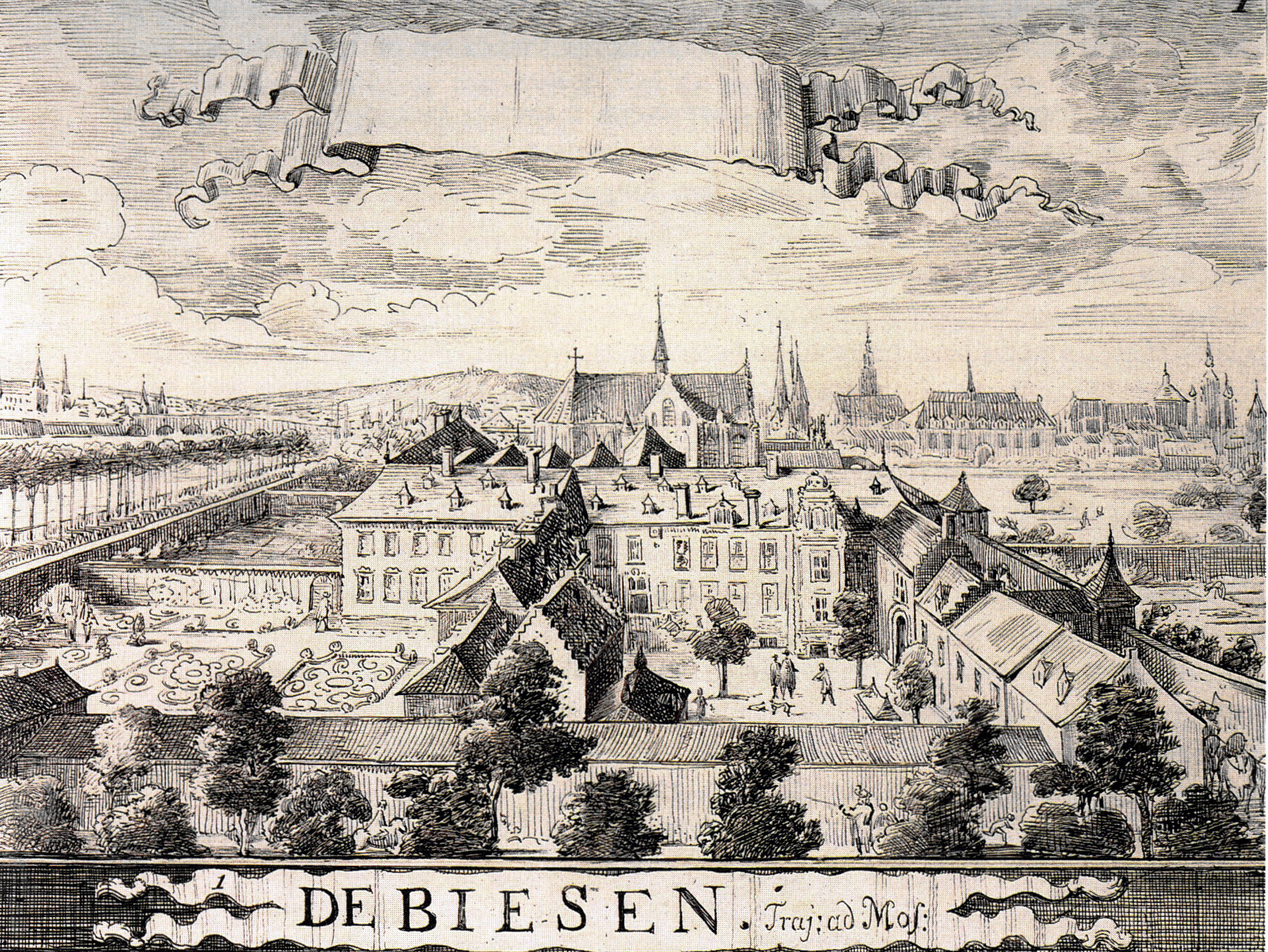 View of the Commandry Nieuwen Biesen of the Knights of the Teutonic Order in Maastricht, the Netherlands. Detail of an engraving of all commandries in the bailiwick Alden Biesen after a drawing by Romeyn de Hooghe, c 1700.